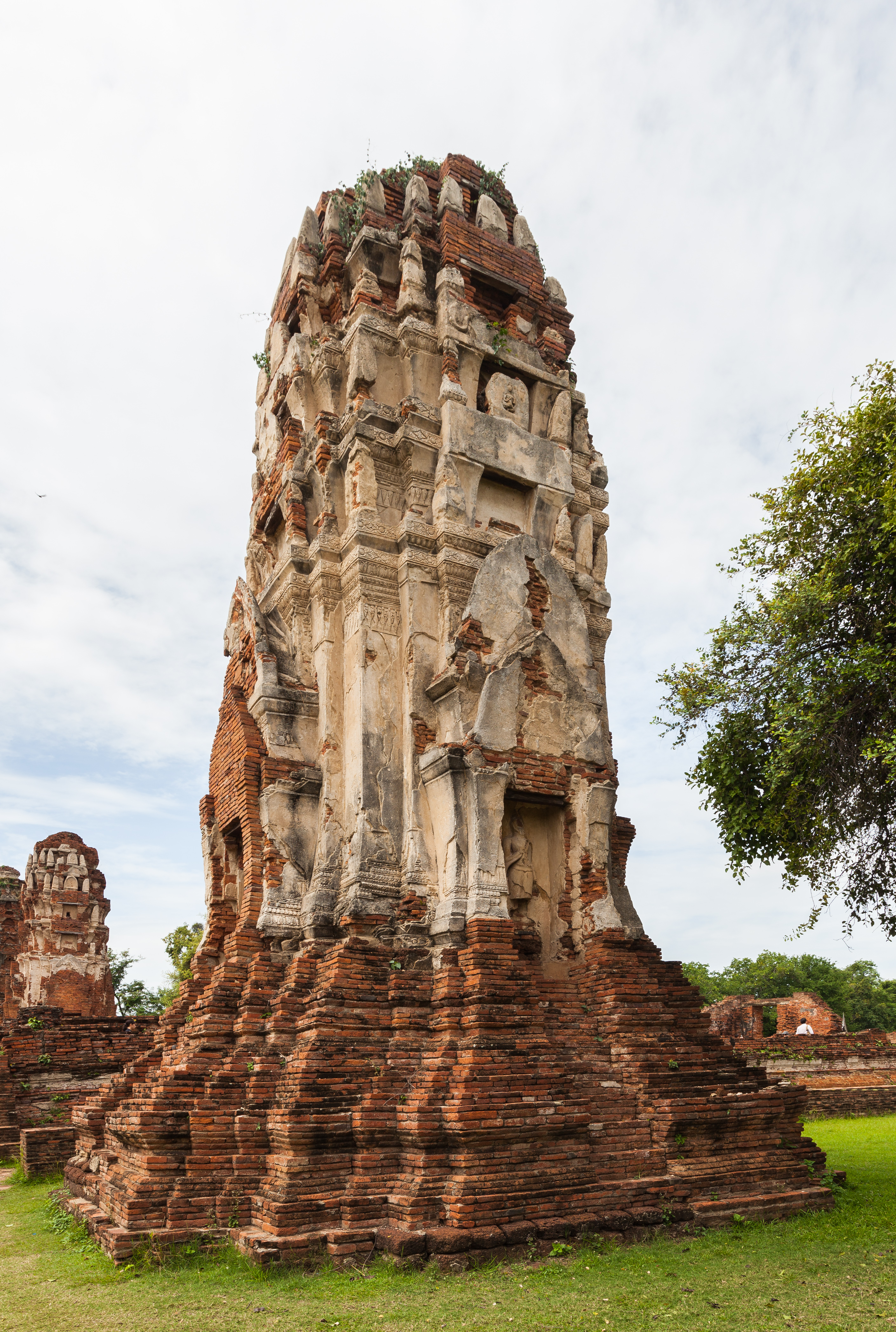 Mahathat Temple, Ayutthaya, Thailand